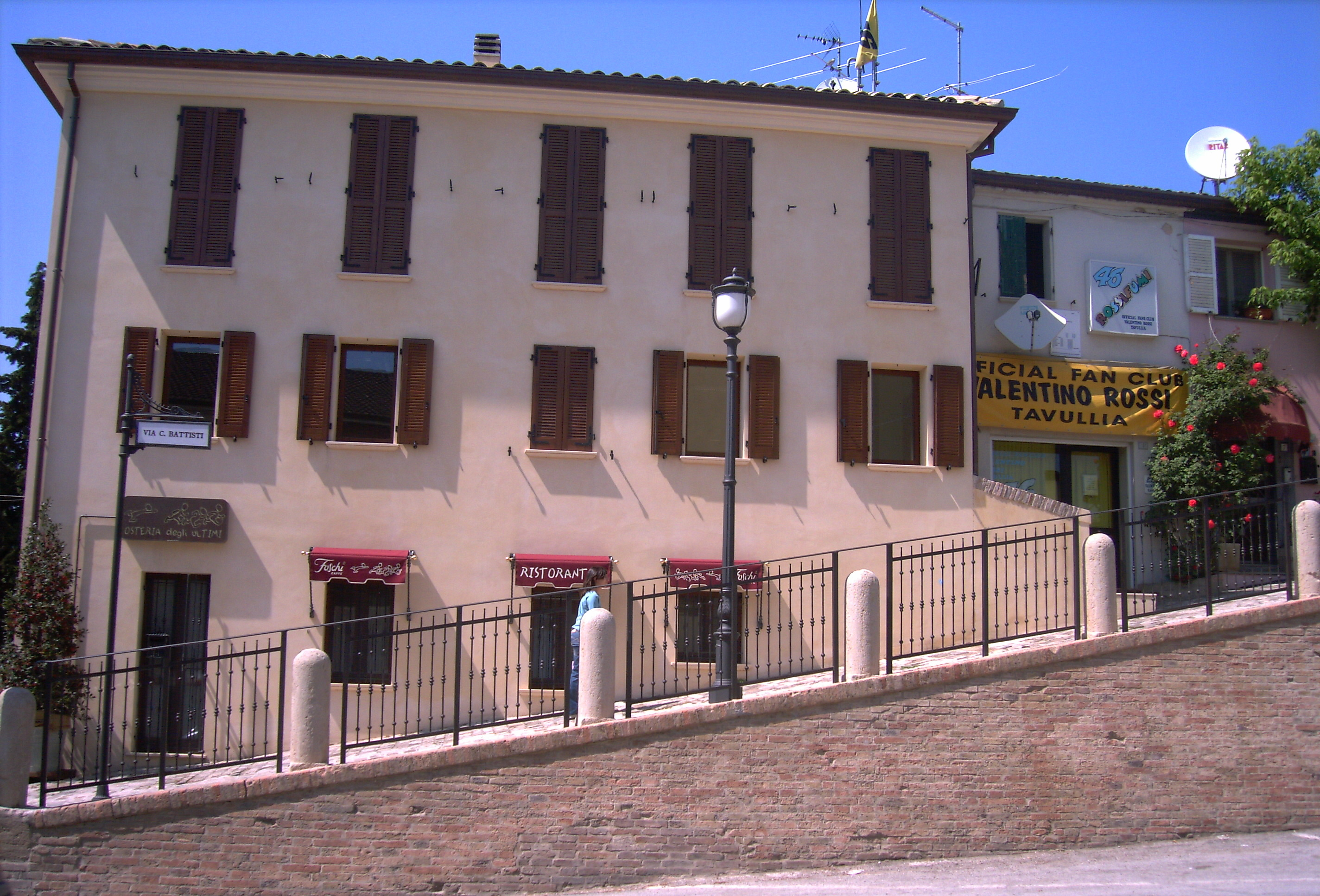 Picture of Valentino Rossis Fanshop in Tavullia / Italy